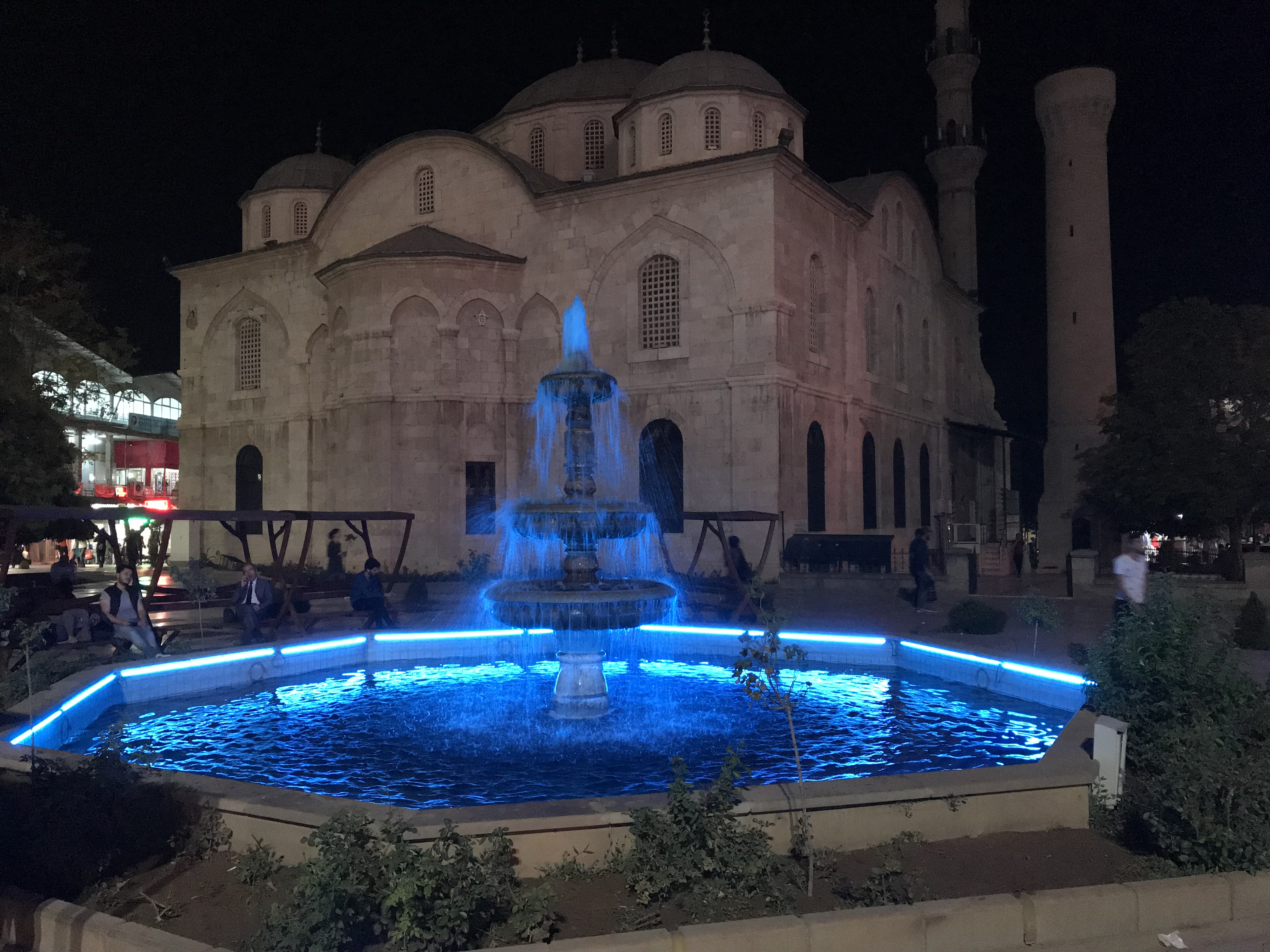 The fountain at night at Yeni Cami Square in the downtown of Malatya, Turkey.